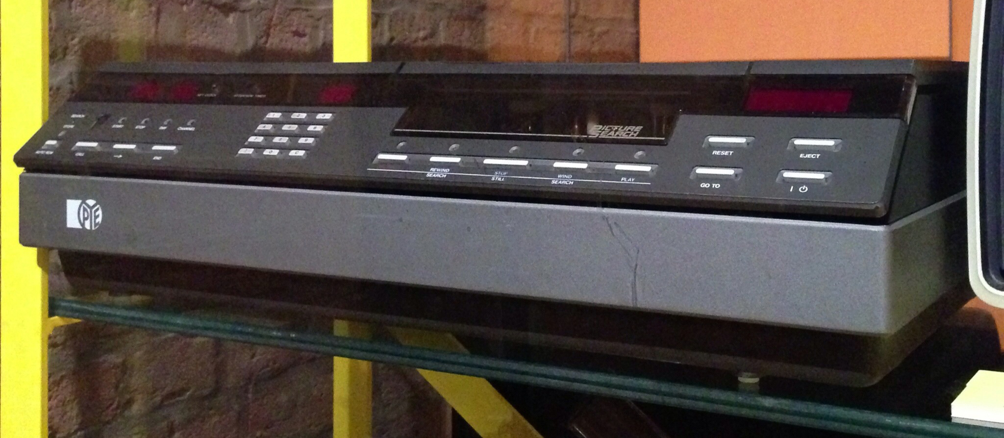 Pye-branded "Video 2000"-format video cassette recorder. Photographed at the Electricity Hall of the Museum of Science and Industry in Manchester.